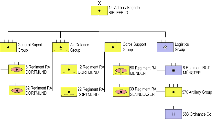 1 Artillery Brigade Cold War